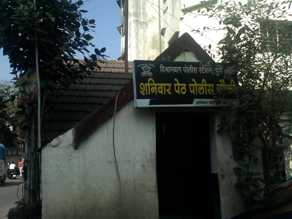 The police chowky is located in Shaniwar Peth in Pune city.